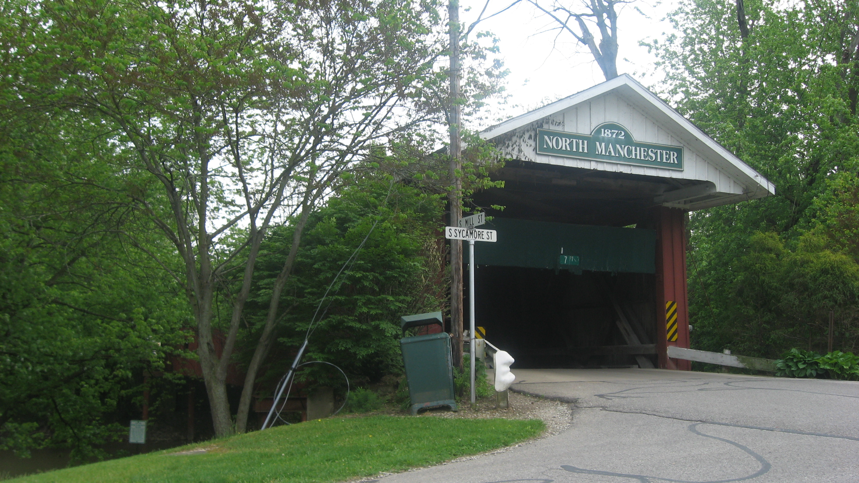 Northern portal of the North Manchester Covered Bridge, which carries Mill Street over the Eel River in North Manchester, Indiana, United States. Built in 1872, it is listed on the National Register of Historic Places.